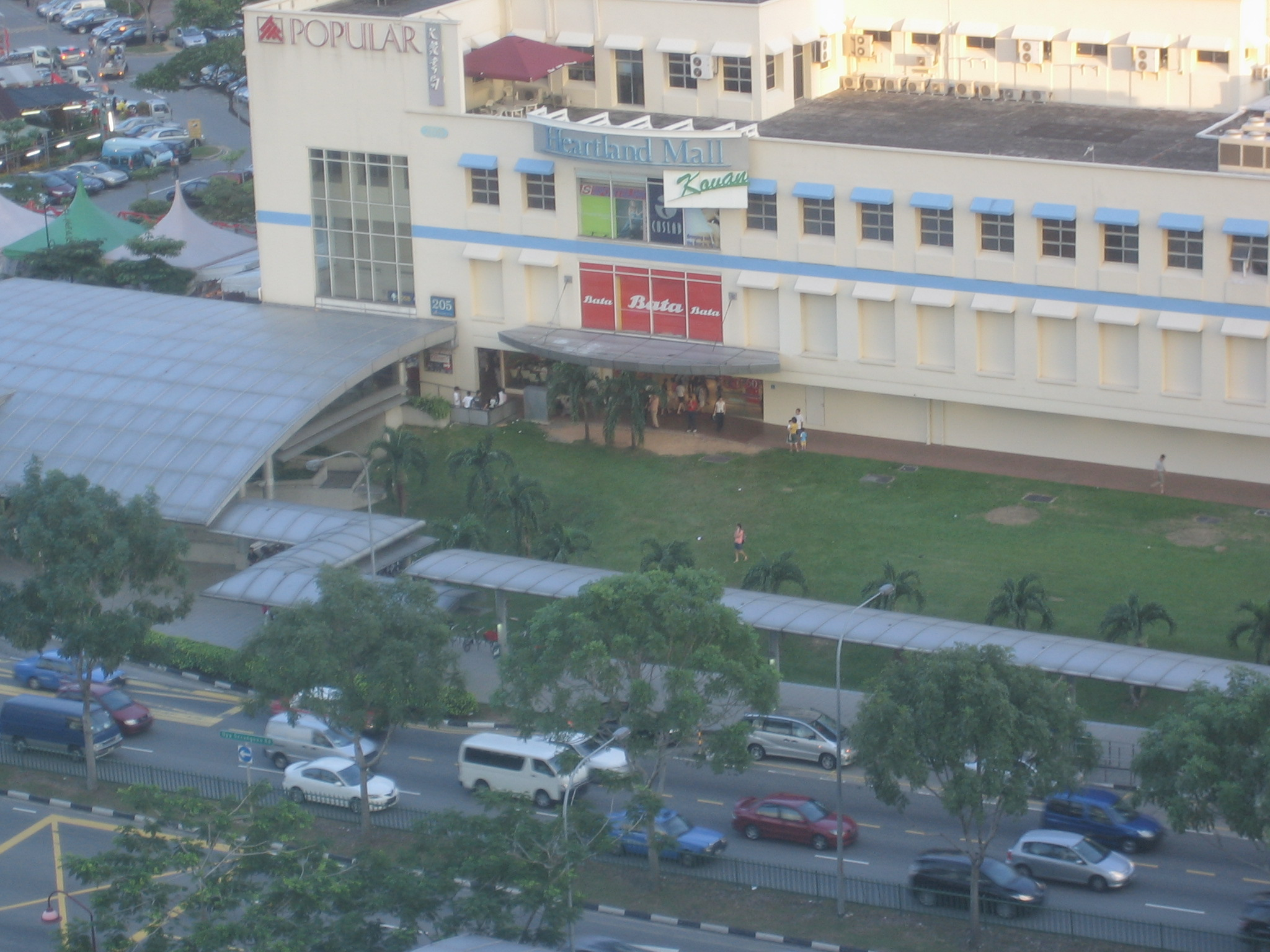 A close-up look at the main entrance of Heartland Mall, Kovan, Singapore